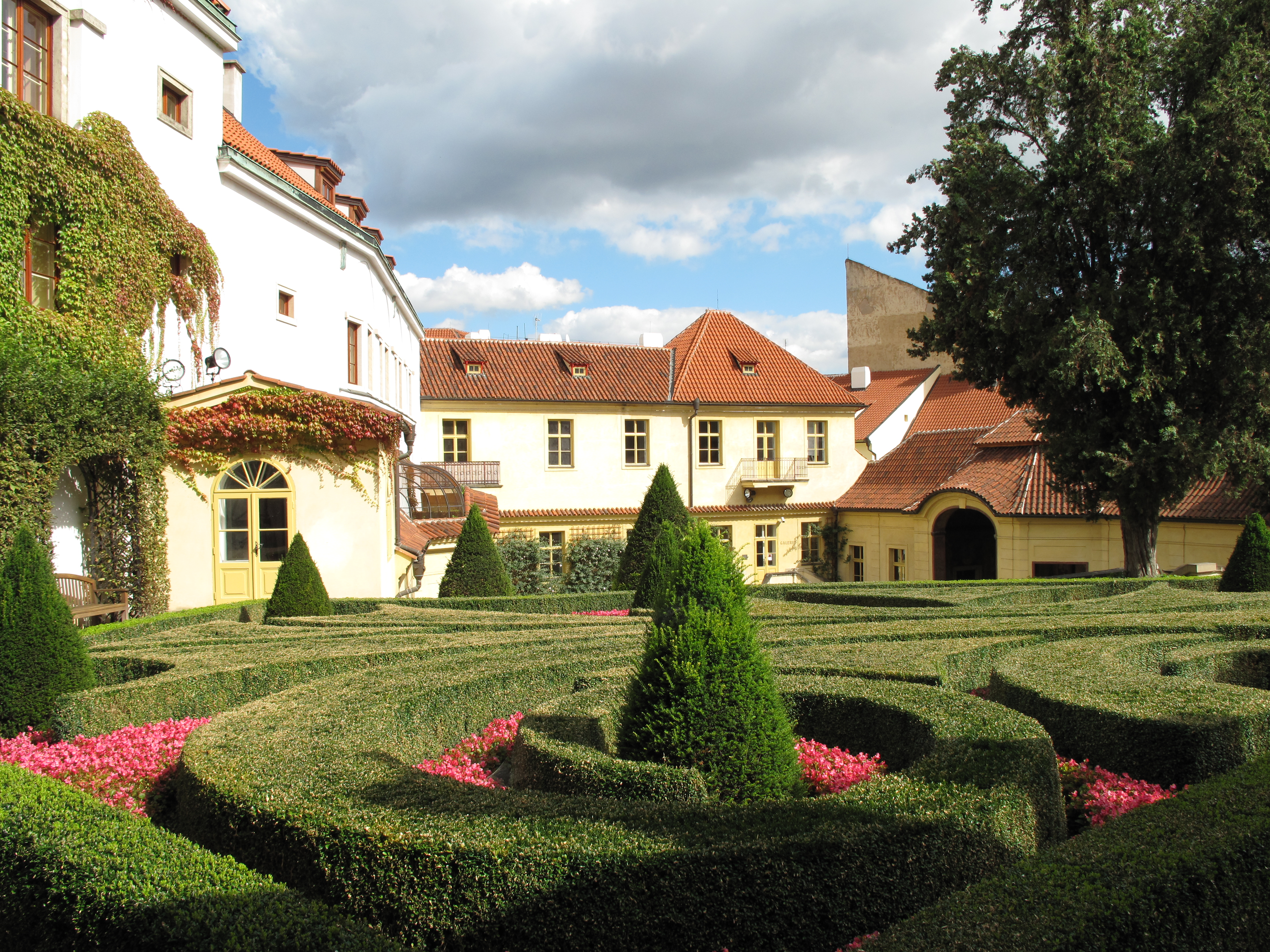 Vrtba Garden - different parts, Prague, Lesser Quarter, Czech Republic.